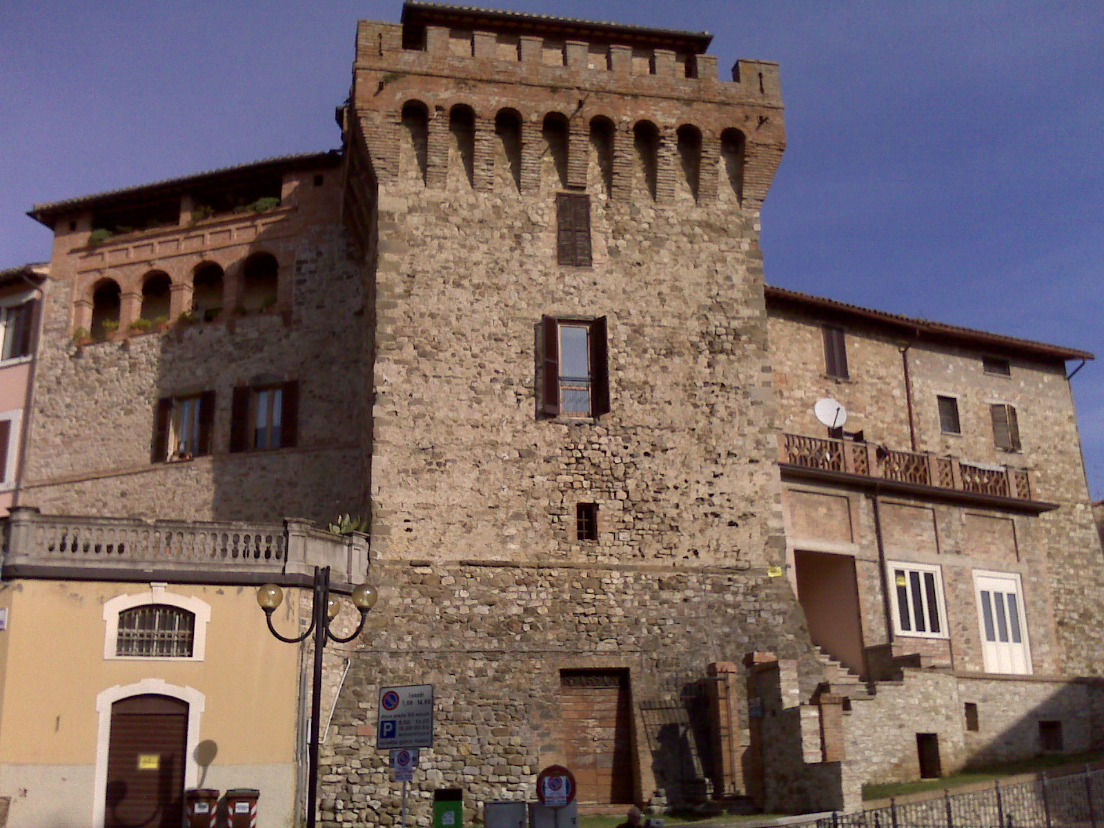 Torre Bolli